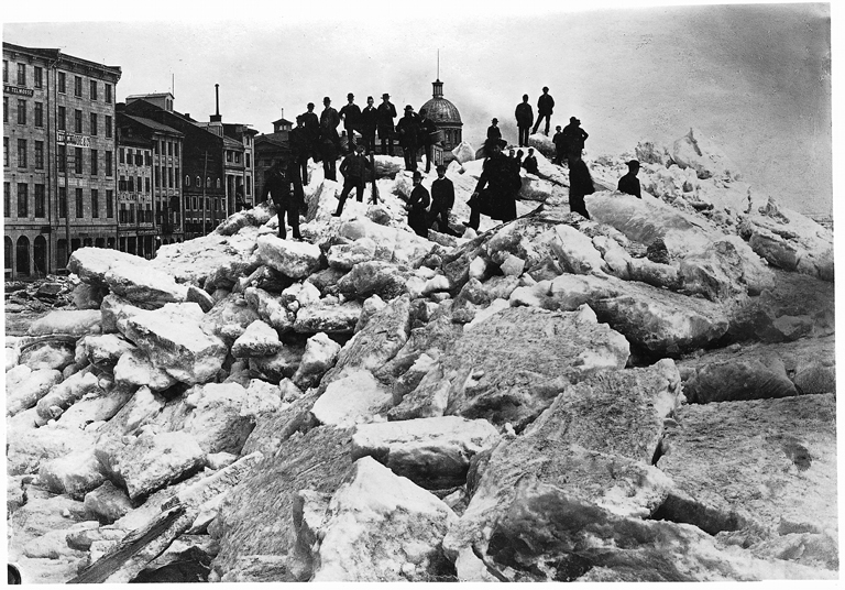 VIEW-1497.0 Ice shove, Commissioners Street, Montreal, QC, about 1884 Wm. Notman & Son 1930-1950, 20th century Notman photographic Archives - McCord Museum VIEW-1497.0 Débâcle, rue des Commissaires, Montréal, QC, vers 1884 Wm. Notman & Son 1930-1950, 20e siècle Archives photographiques Notman - Musée McCord To see the image file on the McCord Museum website, click on the following link: Pour voir la fiche descriptive de cette photographie sur le site Web du Musée McCord, cliquer le lien suivant